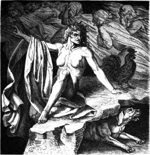 Captioned as "Hel". A stern-faced and somewhat gnarled Hel, draped with a blanket but otherwise nude, looks to the right and points to the left while sitting on a stone ledge. Behind her, robed and cloaked figures pass by towards the direction in which Hel is pointing. Beside Hel stands stands a rooster facing to the right (a soot-red rooster is described in Völuspá as residing in Hel), and below the ledge a hound (likely Garmr) also looks to the right.